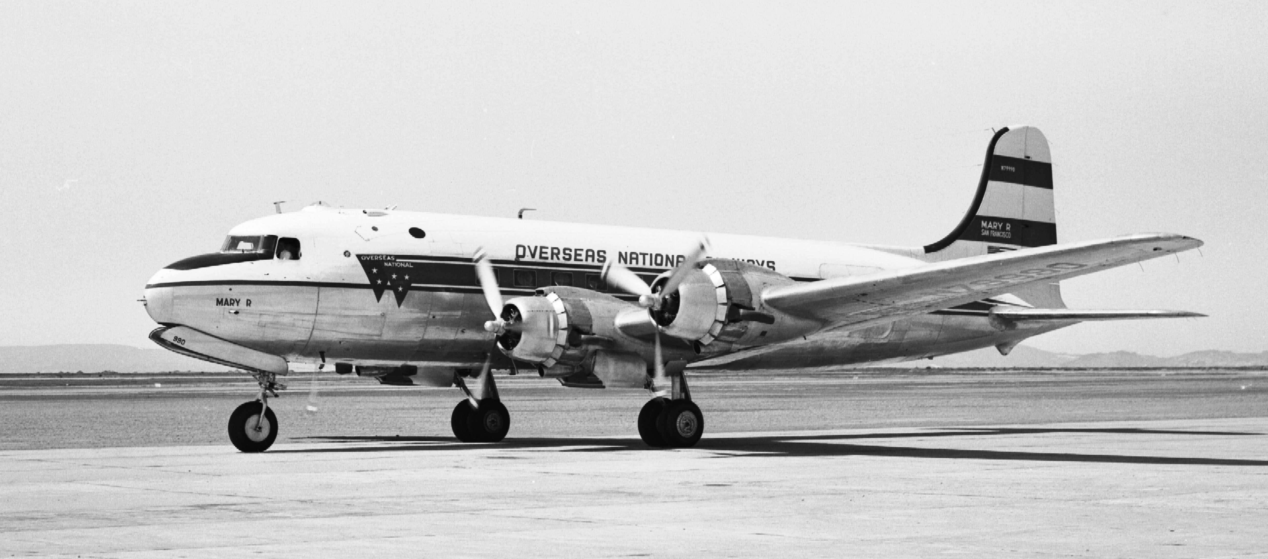 Overseas National Airways Douglas DC-4 (N79990)